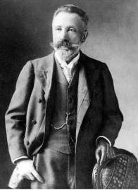 Elias Cyon